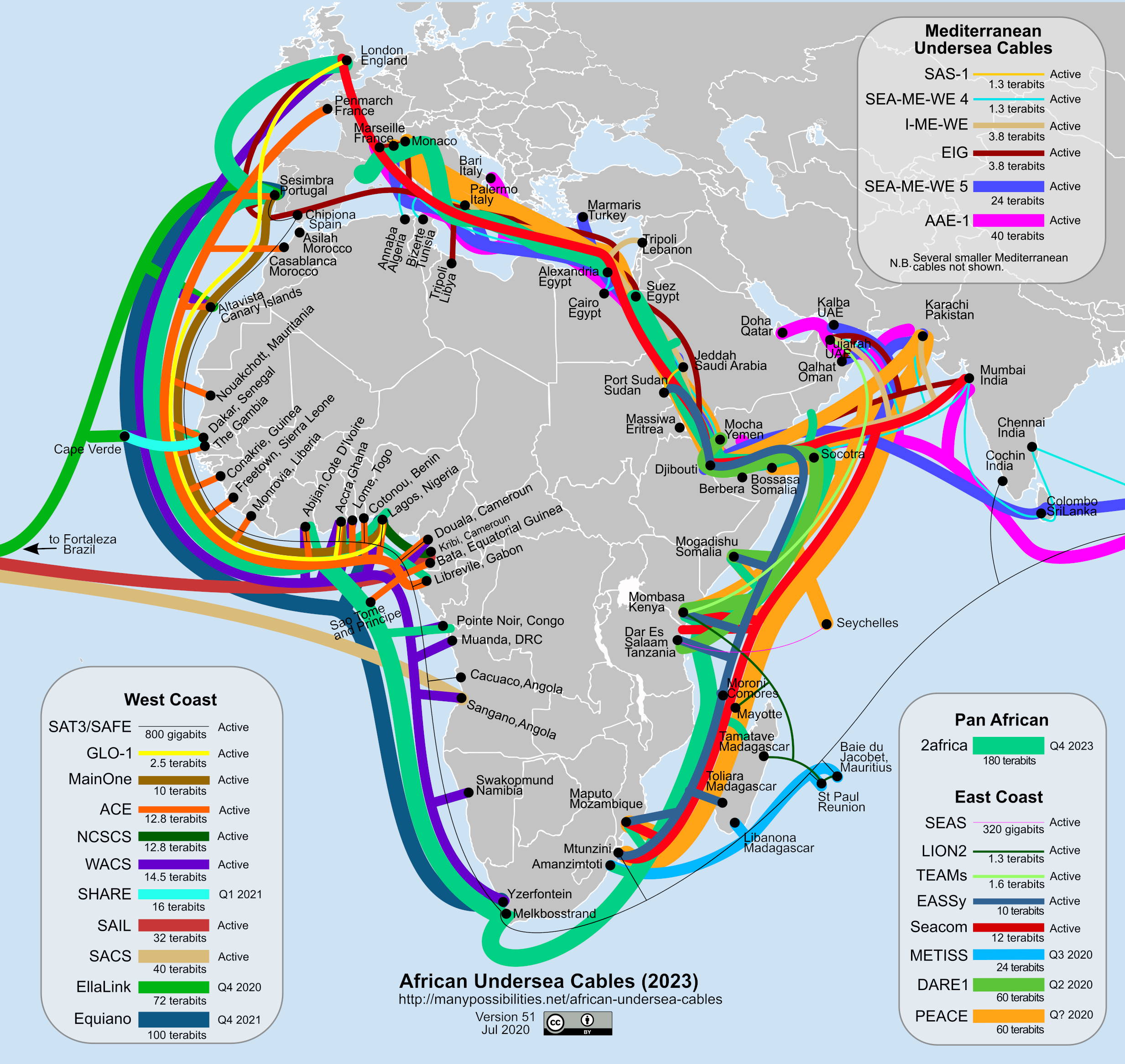 Undersea cables in African continent